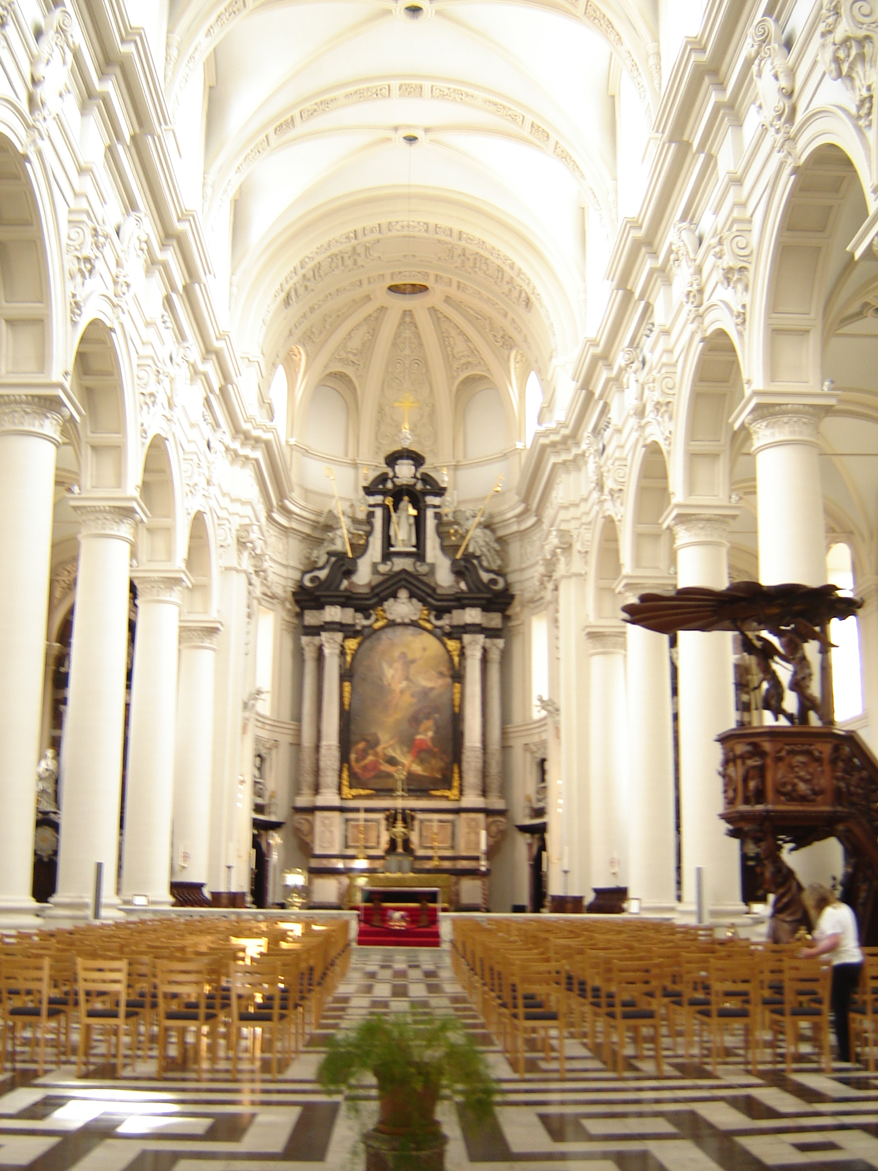 Church of Saint Walpurga in Brugge. Brugge, West Flanders, Belgium.